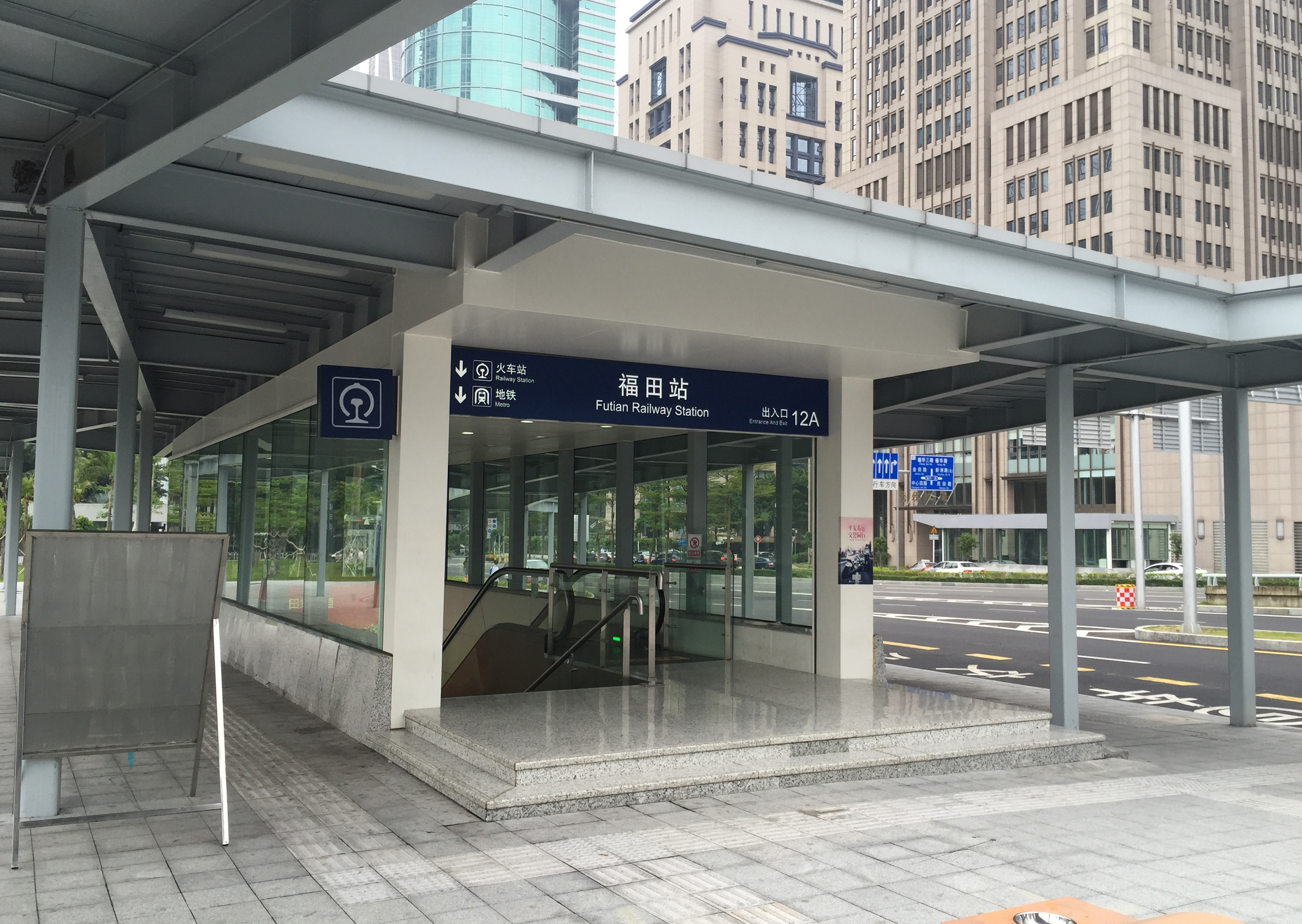 This exit is in operation!